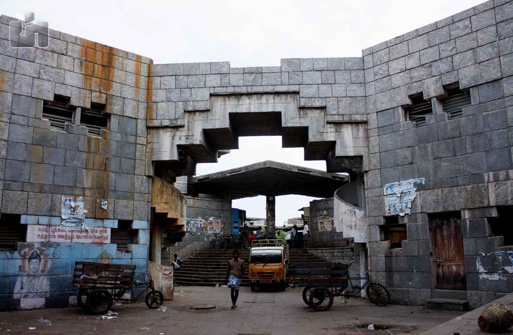 The Koyambedu Market is the largest perishable goods market in Asia. Built on the outskirts of the city, it eventually has reduced a lot of traffic movement for goods within the main city. Even at 6 a.m in the morning, the place was abuzz with activity.